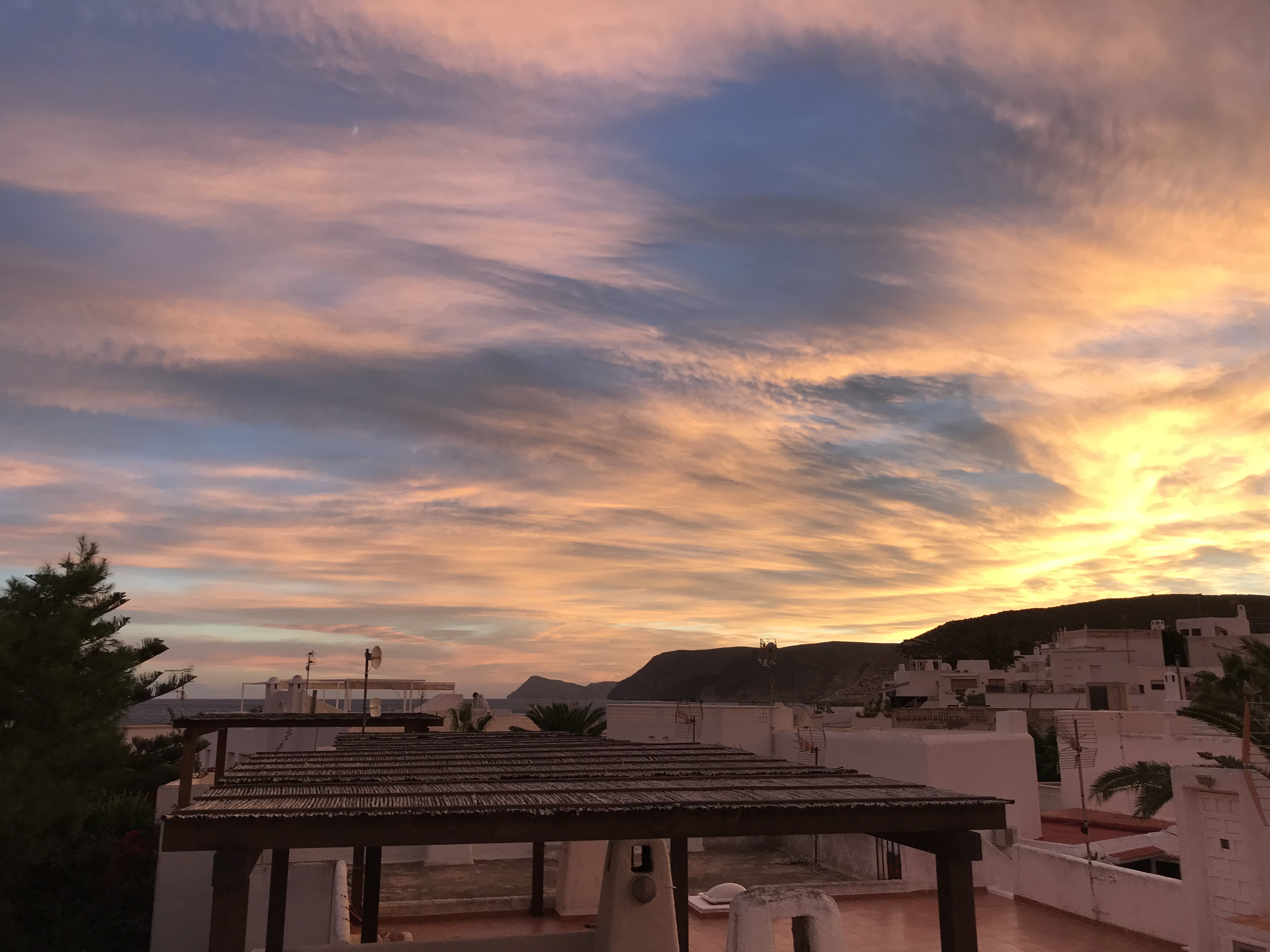 Agua Amarga sky at dusk